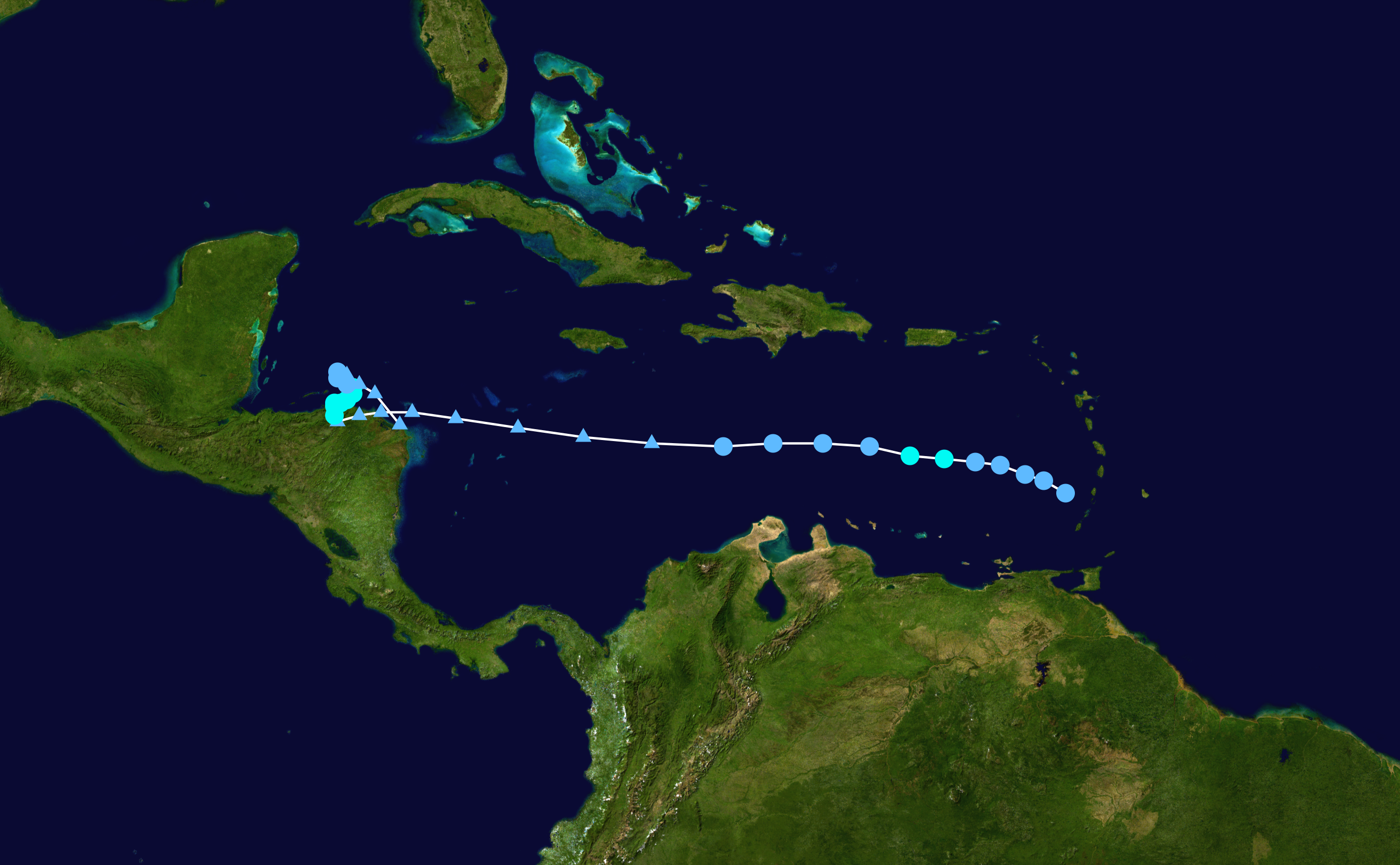 Track map of Tropical Storm Gamma of the 2005 Atlantic hurricane season. The points show the location of the storm at 6-hour intervals. The colour represents the storm's maximum sustained wind speeds as classified in the Saffir–Simpson scale (see below), and the shape of the data points represent the nature of the storm, according to the legend below. Saffir–Simpson scale Tropical depression≤38 mph≤62 km/h Category 3111–129 mph178–208 km/h Tropical storm39–73 mph63–118 km/h Category 4130–156 mph209–251 km/h Category 174–95 mph119–153 km/h Category 5≥157 mph≥252 km/h Category 296–110 mph154–177 km/h Unknown Storm type Tropical cyclone Subtropical cyclone Extratropical cyclone / Remnant low / Tropical disturbance / Monsoon depression